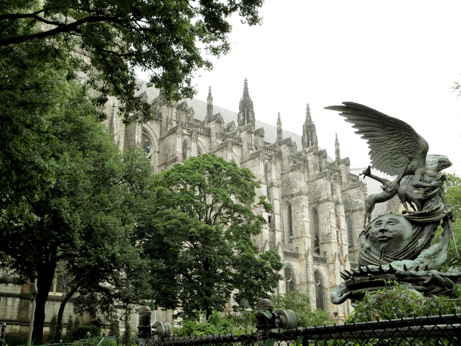 An outside look at the south side of the Cathedral of Saint John the Divine, and Peace Fountain, New York.